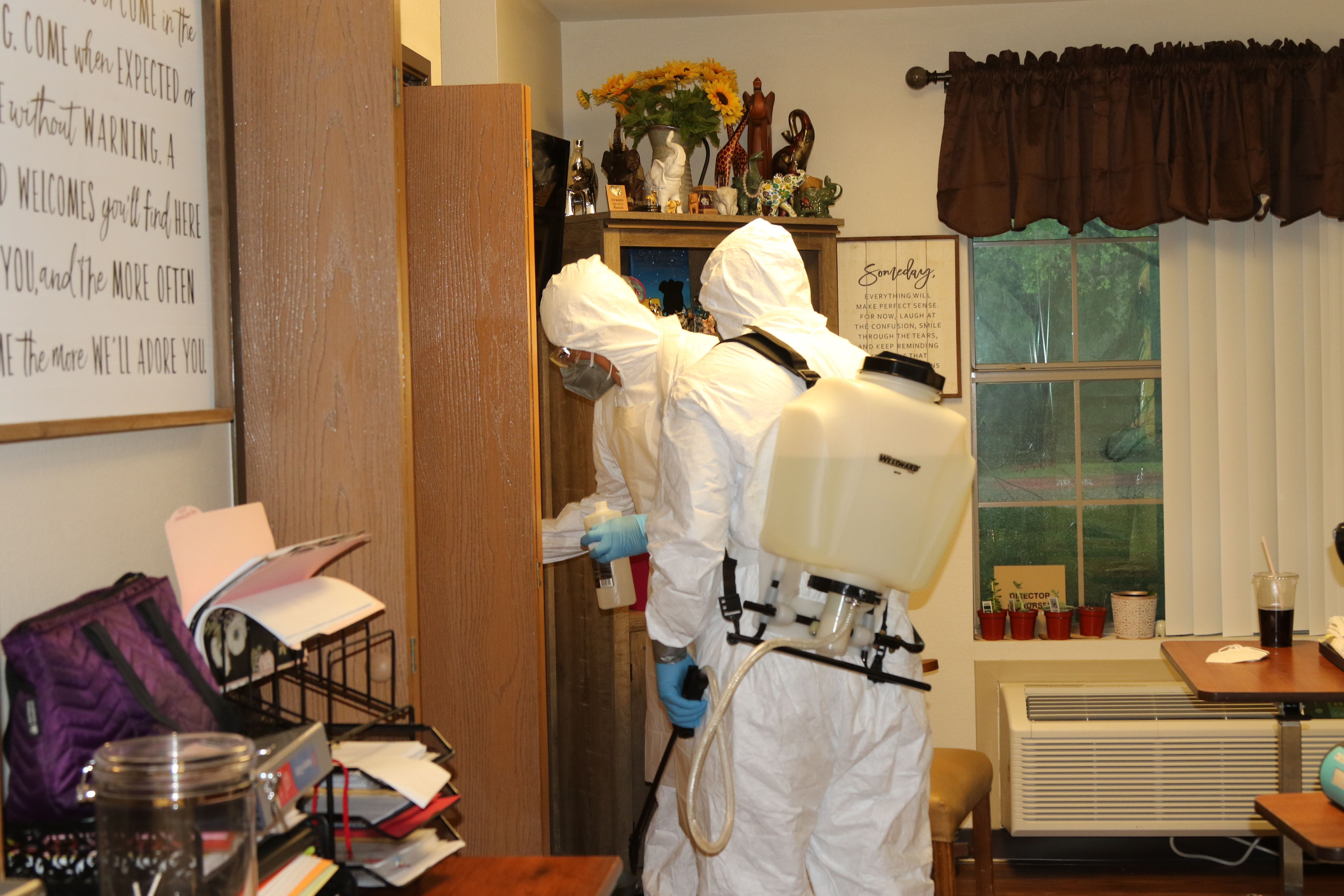 Soldiers of the Texas Army National Guard clean and disinfect nursing home surfaces as part of the Texas Military Department's Facility Decontamination Team mission in Austin, Texas, on May 12, 2020. Several units of Texas Military Department personnel have been mobilized to combat the COVID-19 pandemic, and are now on mission helping to disinfect long-term care facilities throughout the state of Texas on the order of Governor Greg Abbott. (U.S. Army National Guard photo by Sgt. Erin Castle)